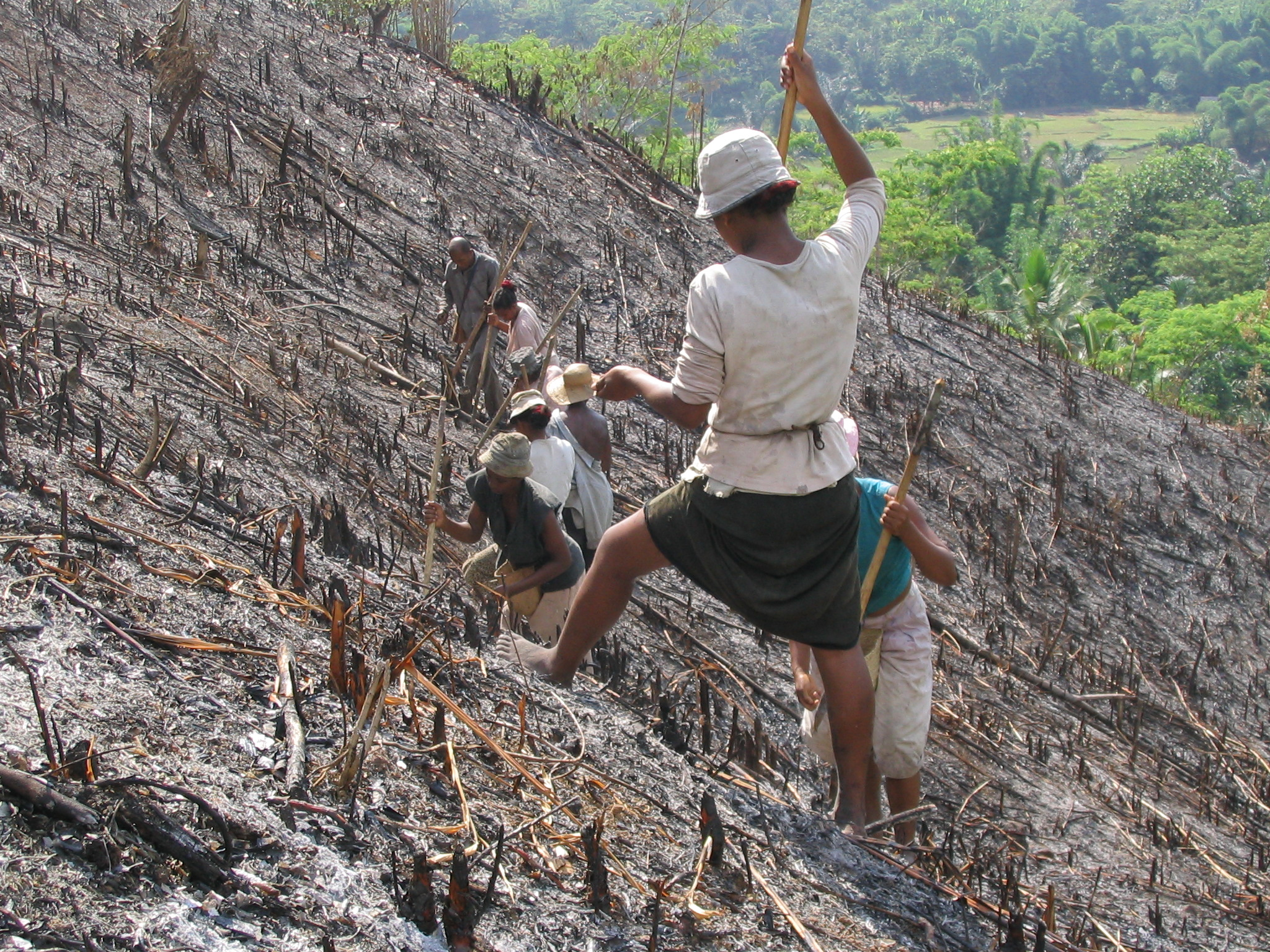 Malagasy planting rice on hillsides that have been burned off (tavy) near Marojejy National Park